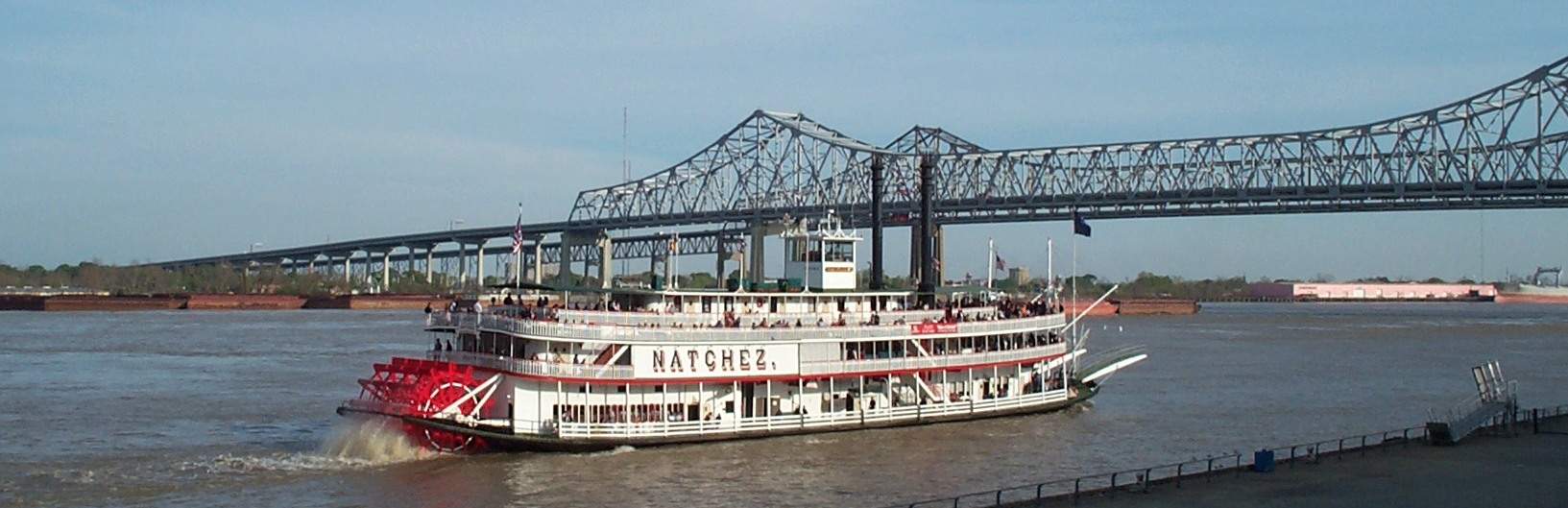 The paddleboat Natchez, on the Mississippi River from the East Bank of New Orleans, with the Crescent City Connection Bridges.